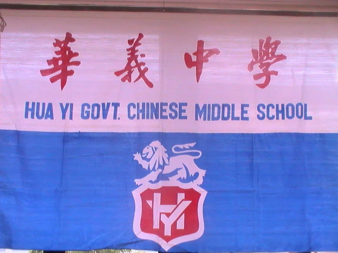 Shows the former flag of Hua Yi Secondary School, which was known as Hua Yi Government Chinese Middle School at that time.